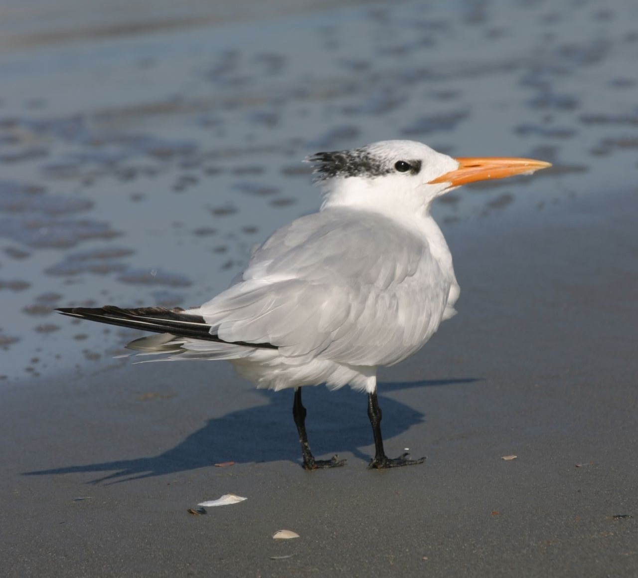 Sterna Maxima on beach